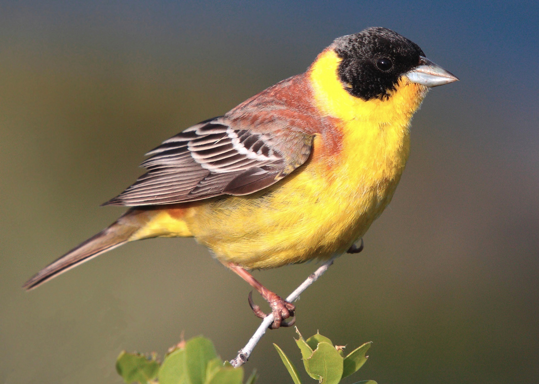 Male Black-headed Bunting on the island of Lesvos, Greece